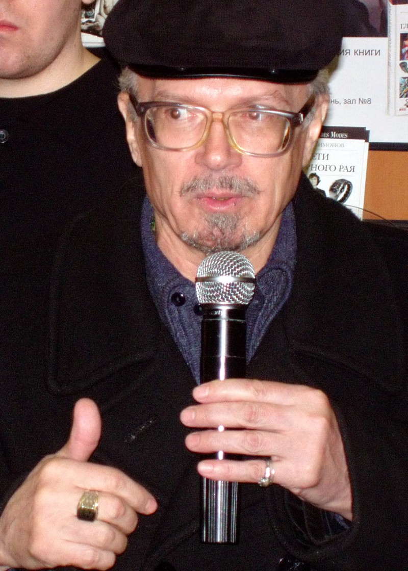 Eduard Limonov on presentation of his book «Дети гламурного рая»